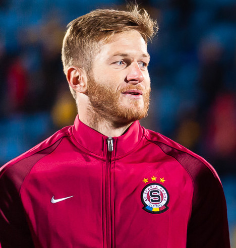 «Ростов» - «Спарта» (16.02.2017)